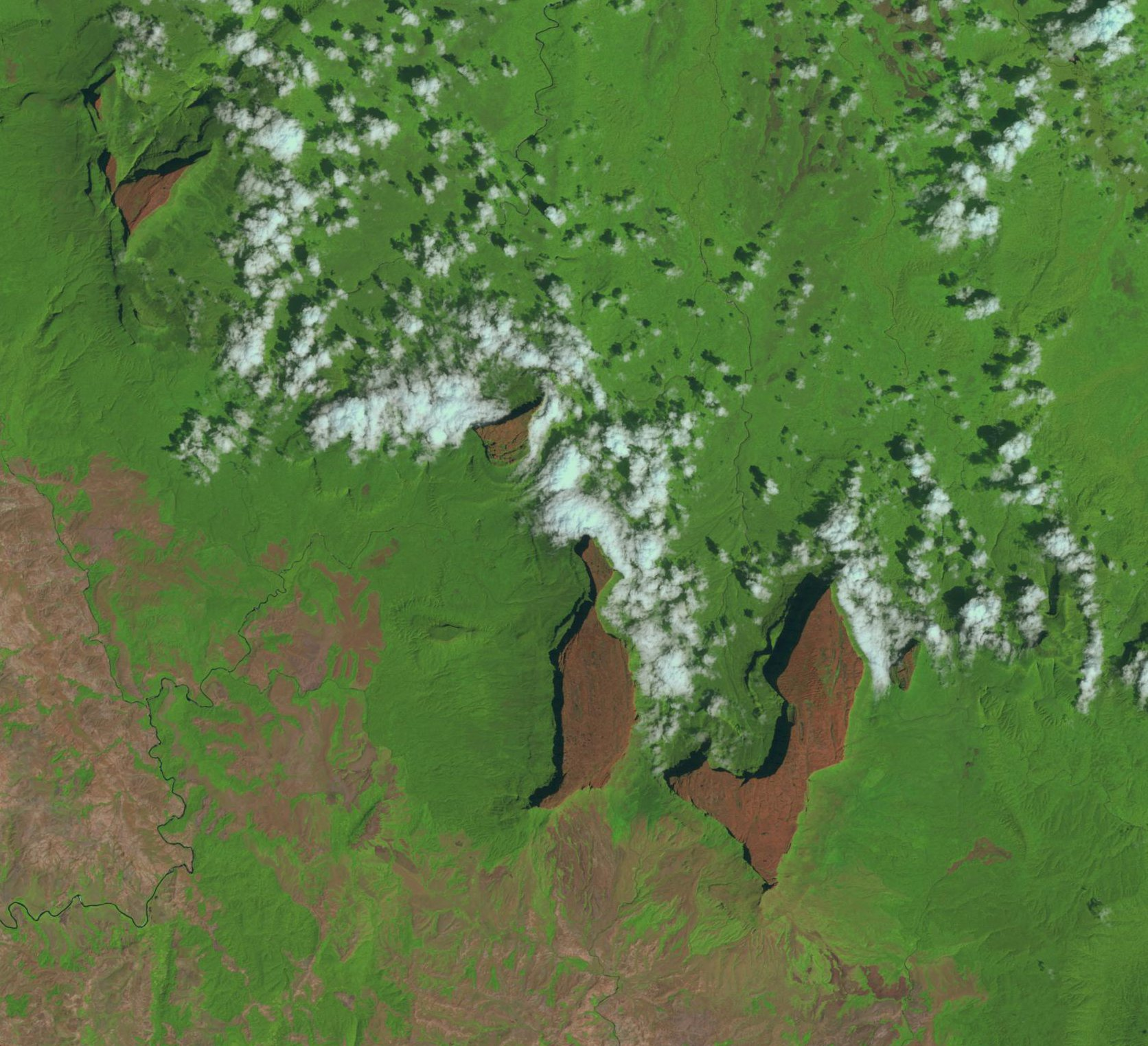 Satellite image language of Mount Roraima.